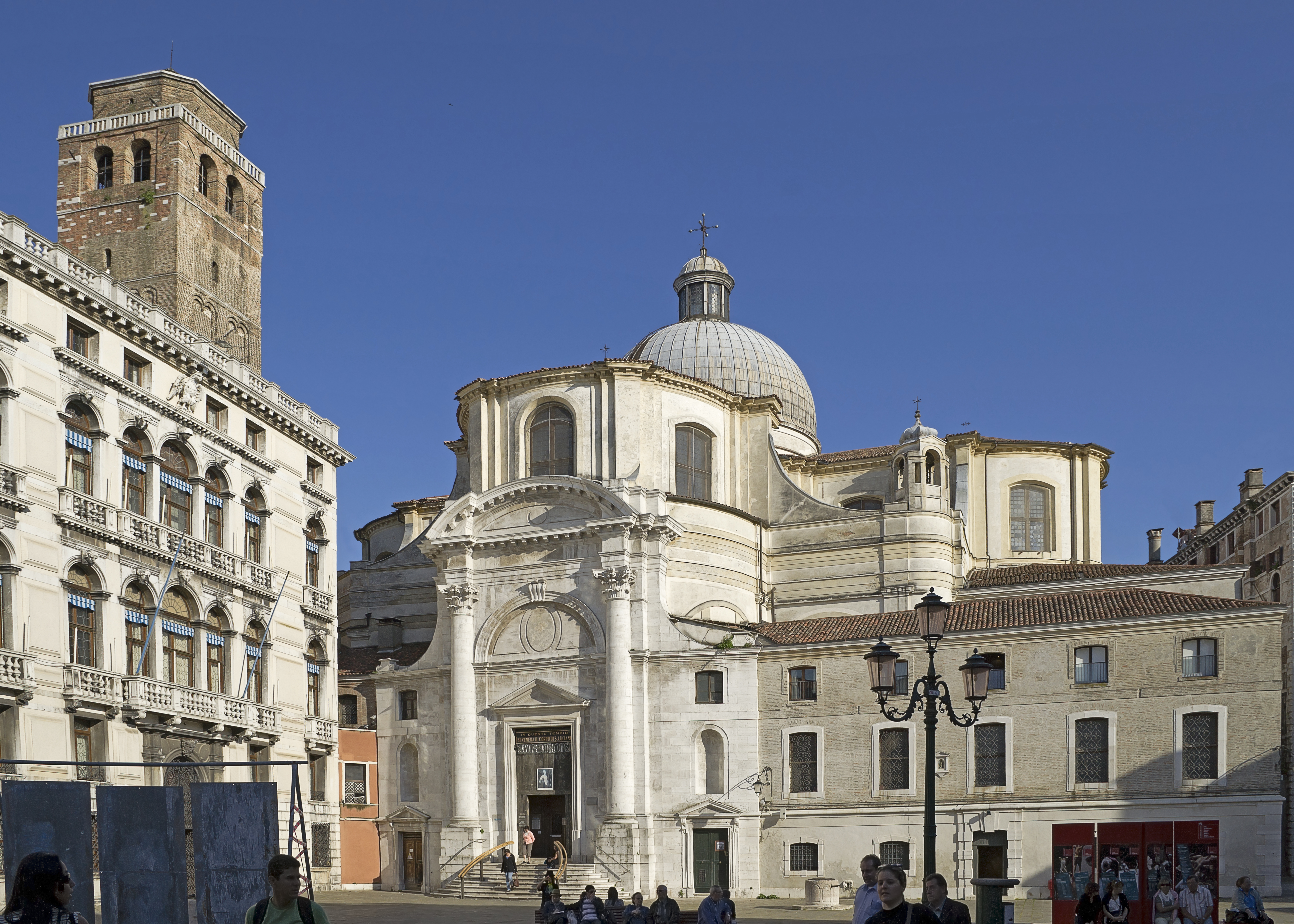 San Geremia, Venice. The present building dates from 1753, designed by Carlo Corbellini facade is from 1861. The brick tower dates from the twelfth century.